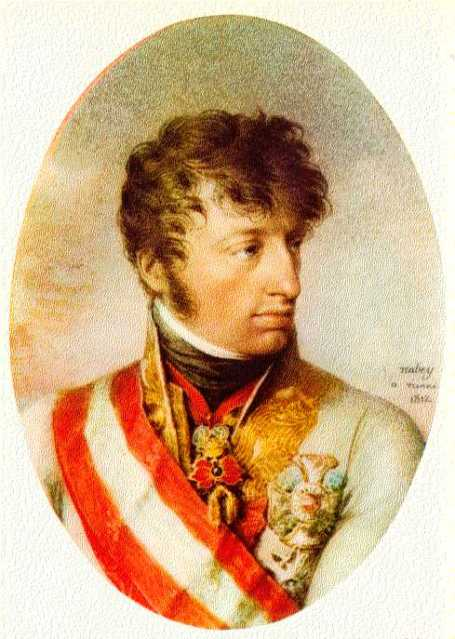 Archduke Charles of Austria, 1771–1847, victor of the Battle of Aspern-Essling